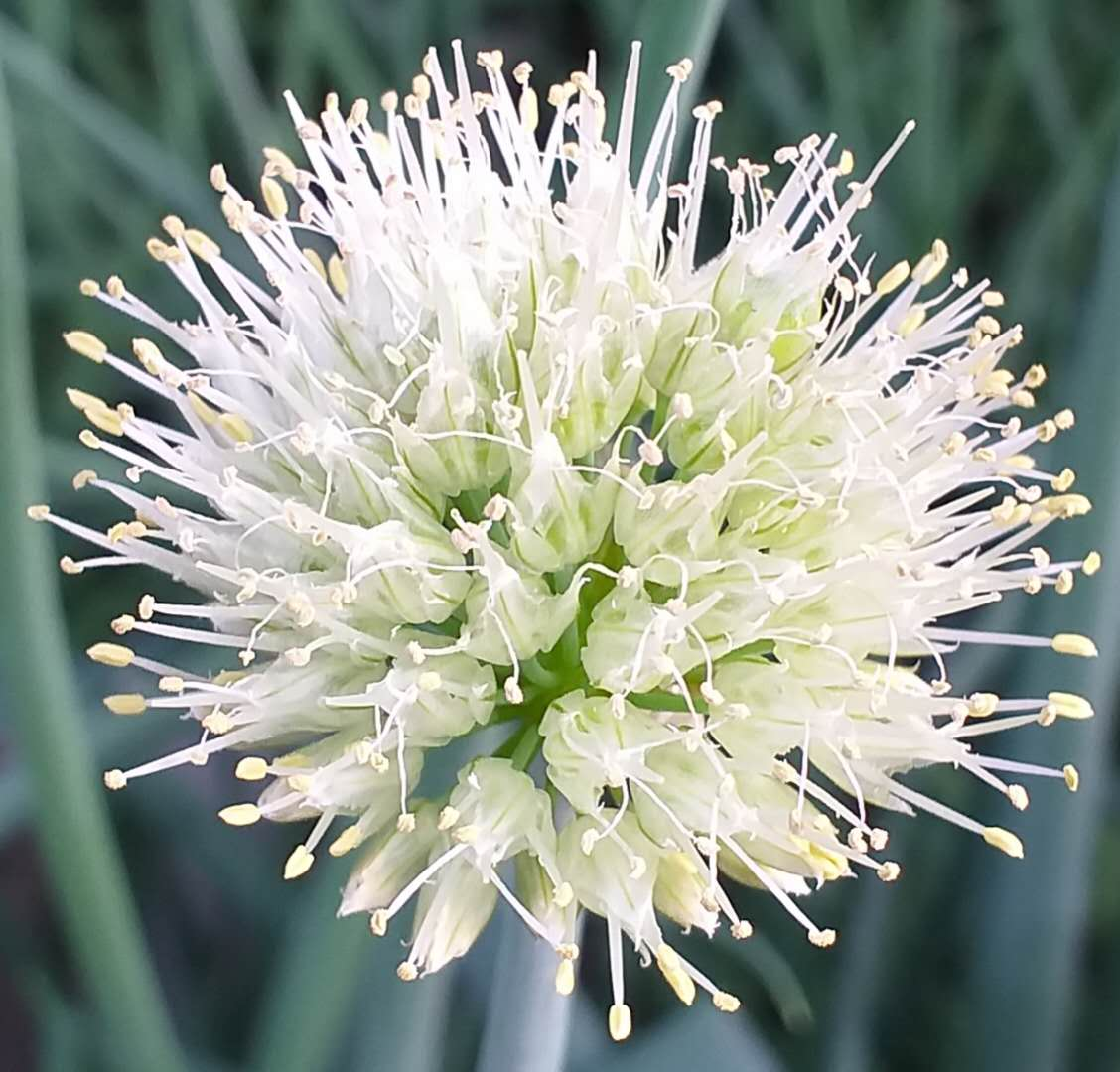 Allium fistulosum. Taichung, Taiwan.